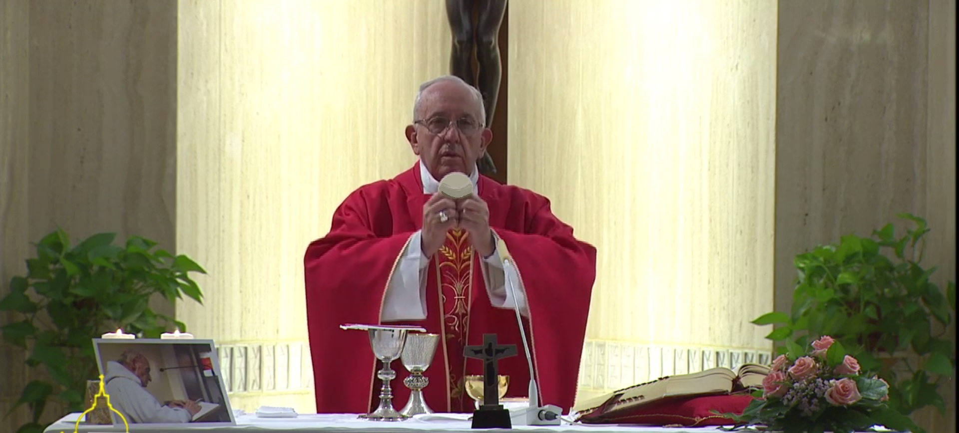 Pope Francis celebrates a special Mass for Jacques Hamel on 14 September 2016 at Domus Sanctae Marthae